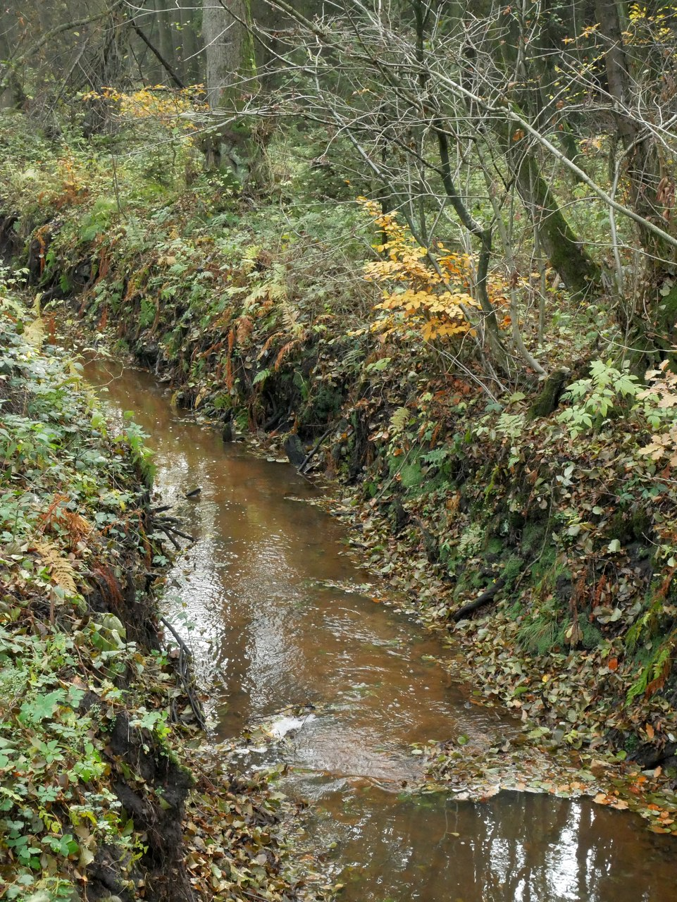 Große Aue, Deimern, Soltau, Lower Saxony, Germany